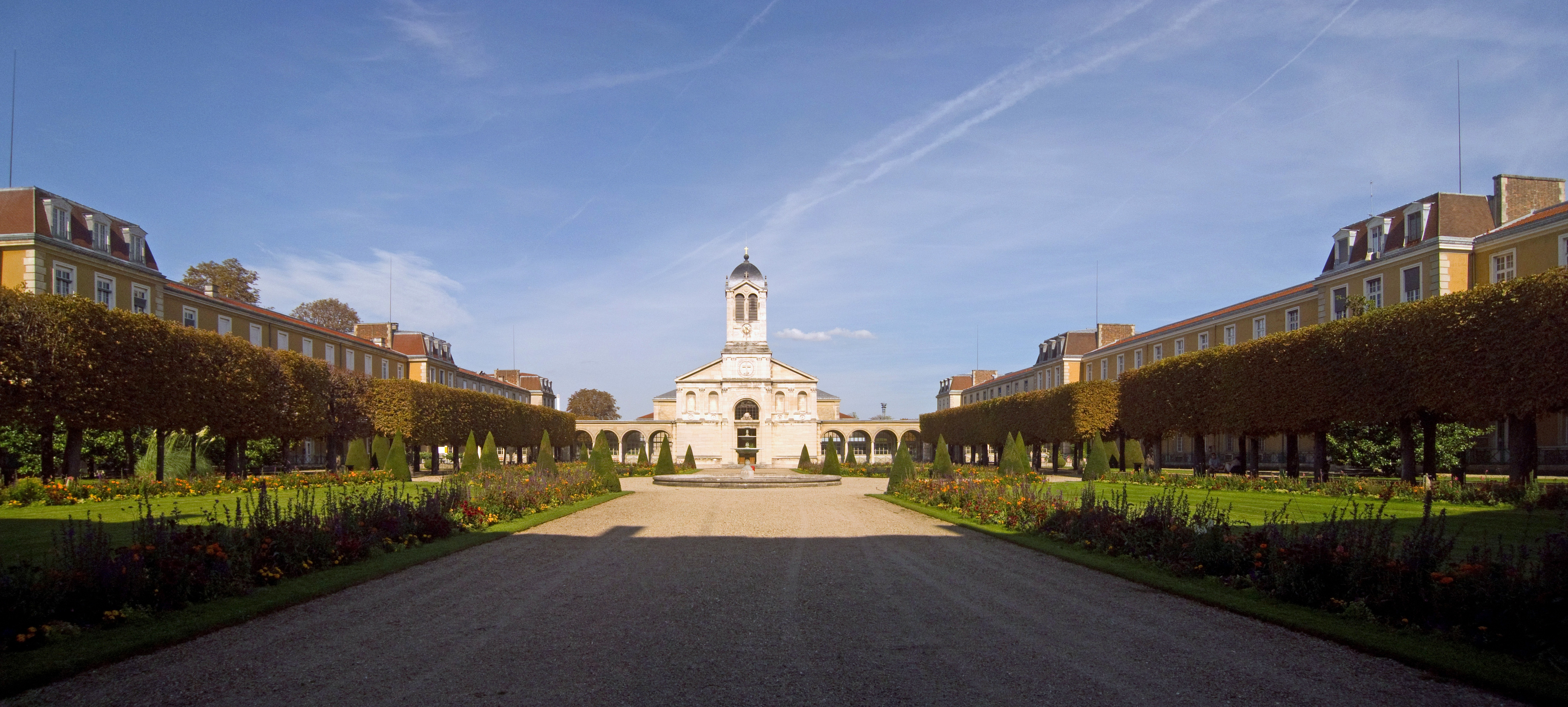 Hôpital Charles-Foix, Ivry-sur-Seine, Val-de-Marne, France. Panoramic view of the main courtyard, looking towards the Notre-Dame Chapel.